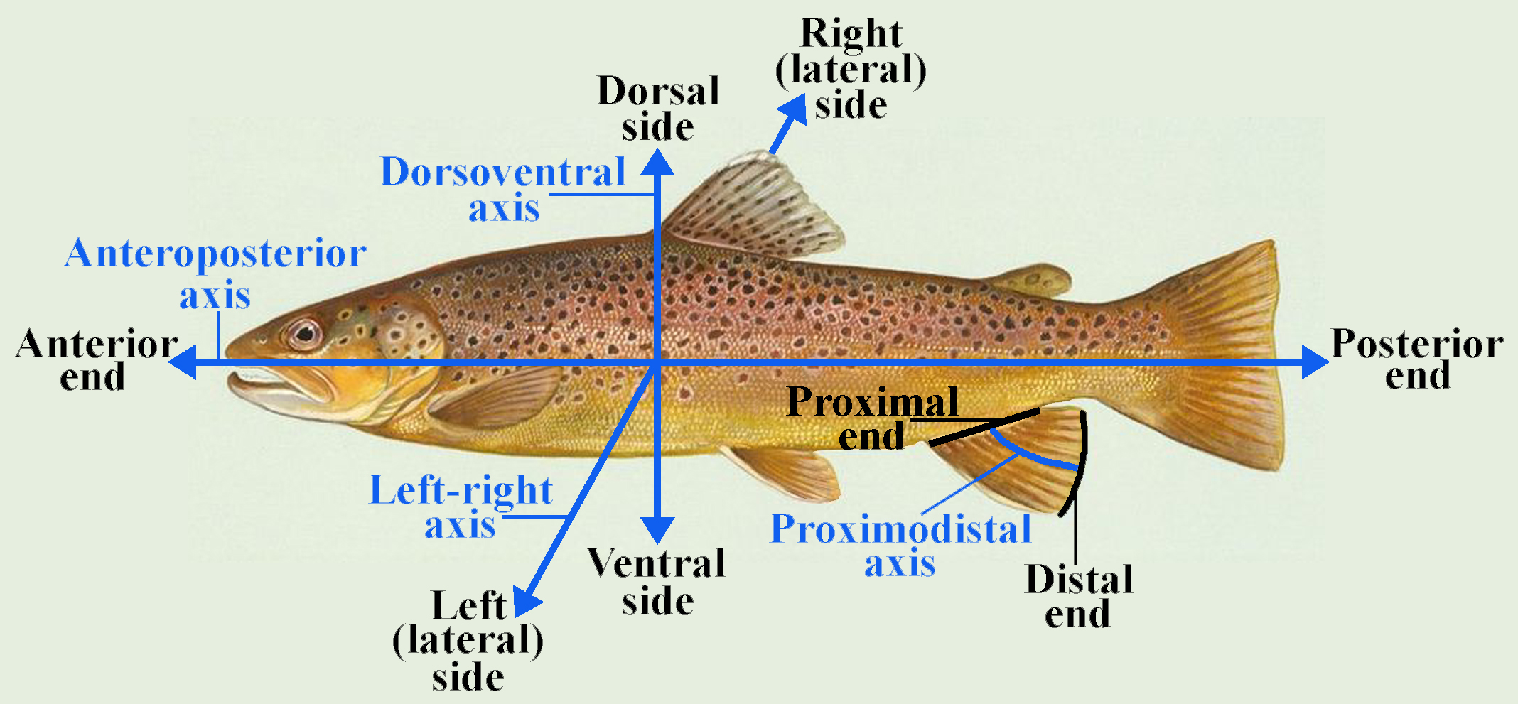 Drawing of vertebrate (fish) body showing the major anatomical axes